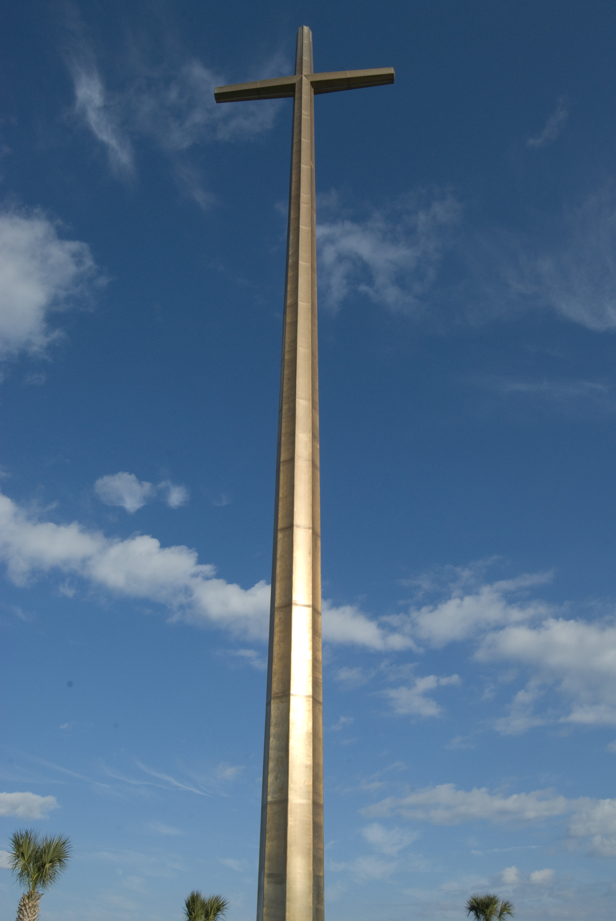 204 foot cross at the Nombre de Dios